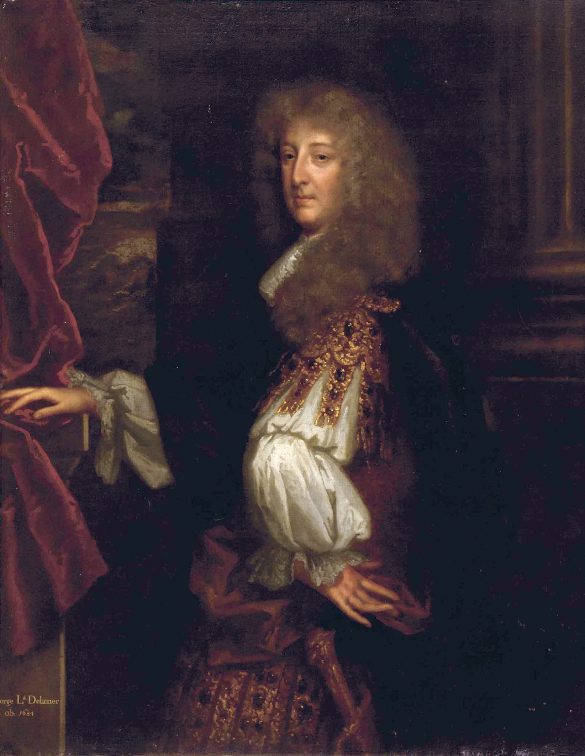 George Booth (1622-1684), 1st Baron Delamer of Dunham Massey oil on canvas 125.1 x 112.2 cm inscribed l.l.: George Ld Delamer / ob: 1684